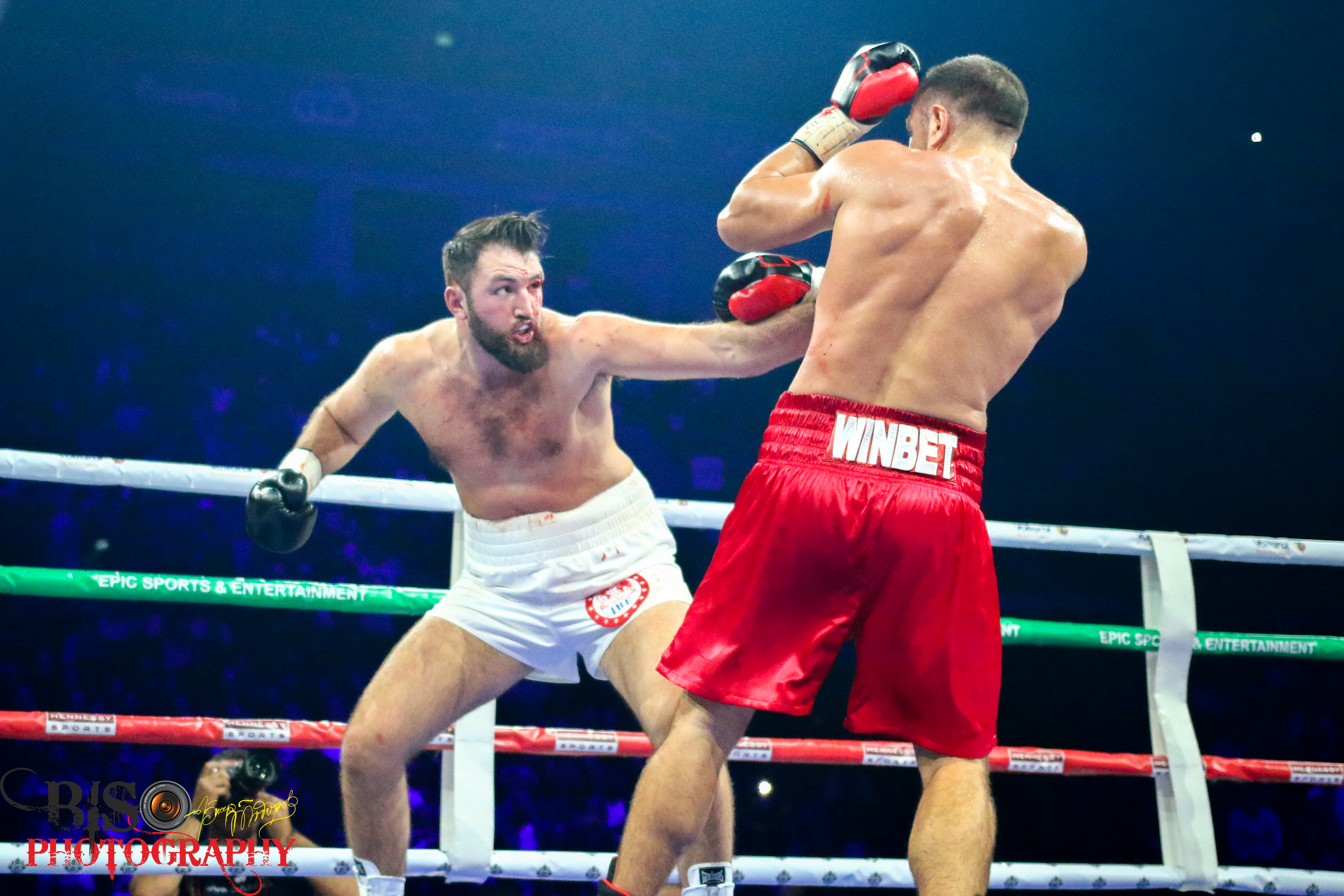 Moment of the heavyweight boxing match for professionals IBF - Kubrat Pulev - Hui Fury, 27 October 2018, Arena Armeec Hall, Sofia, Bulgaria.